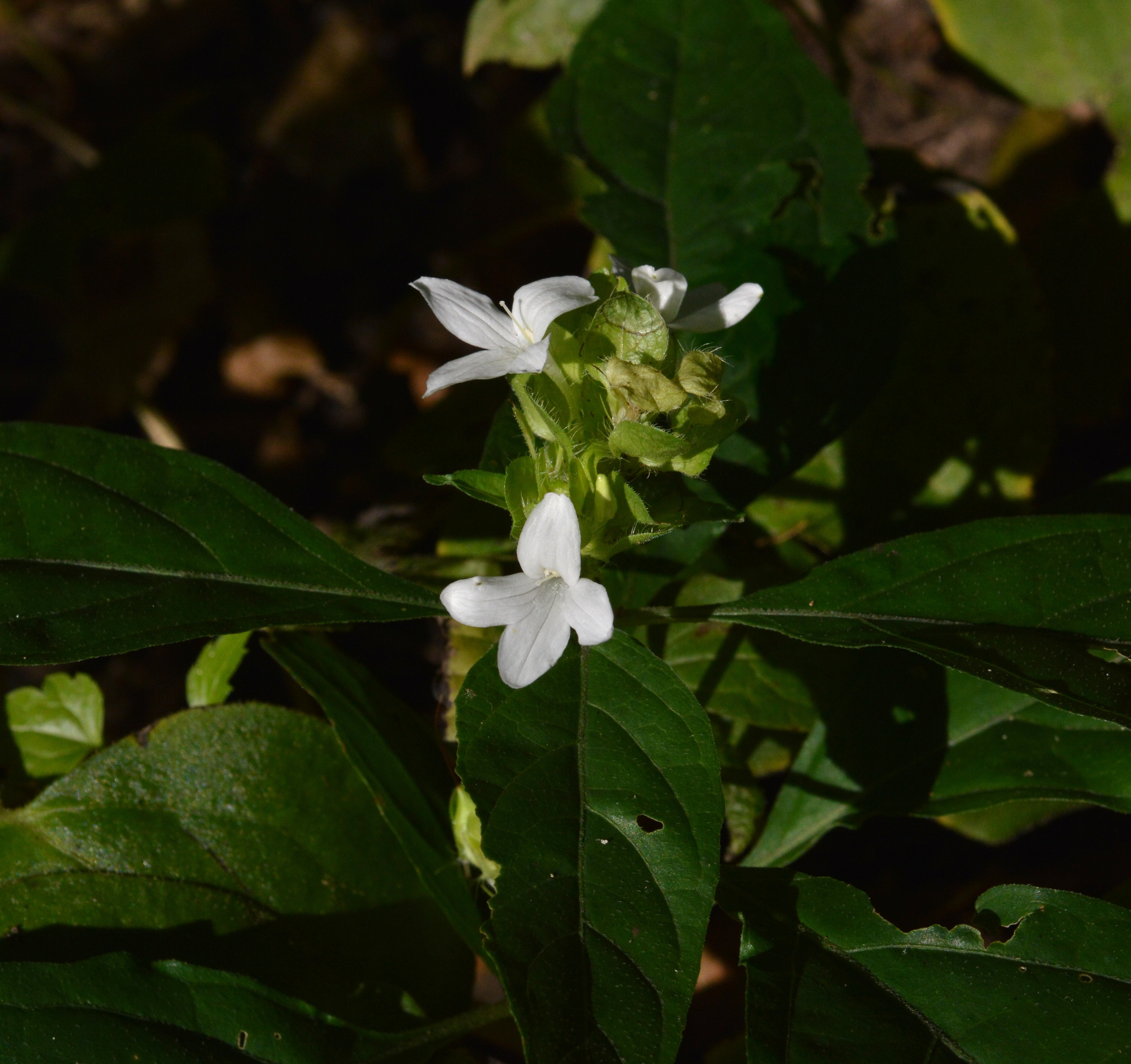 Endemic to the Southeastern Gulf Coastal Plain